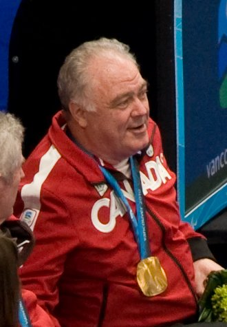 Canadian curler Jim Armstrong with his 2010 Paralympic medal at the medal ceremony for the wheelchair curling tournament at the 2010 Winter Paralympics in Vancouver, Canada.